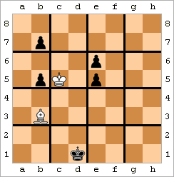 A chess problem (helpmate in 4) under grid chess rules by H. Ternblad. Published in Fairy Chess Review, 1954. Like all problems, in the public domain. Original image made by User:Camembert using ChessBase 6 and Photoshop, released into the public domain. The updated image was made by User:ZeroOne using a screenshot of the chess diagram as a base.